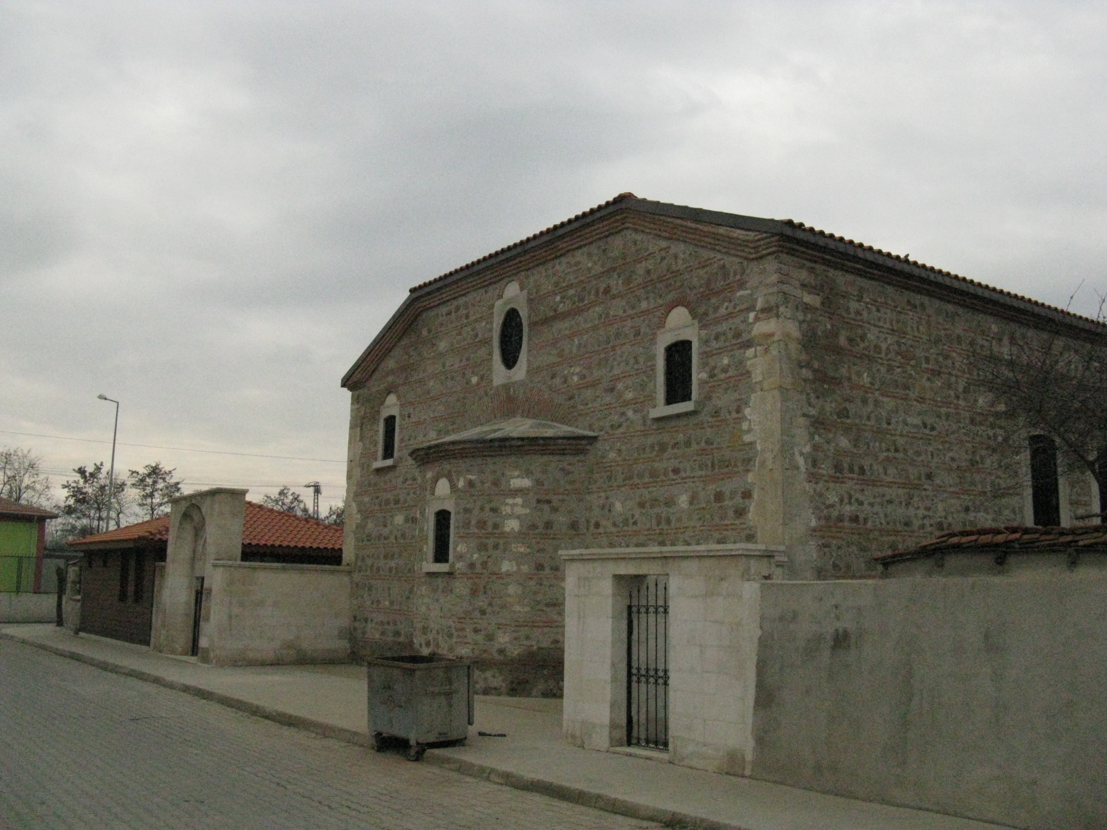 Sts. Constantine and Helen Church (Edirne), Northwest